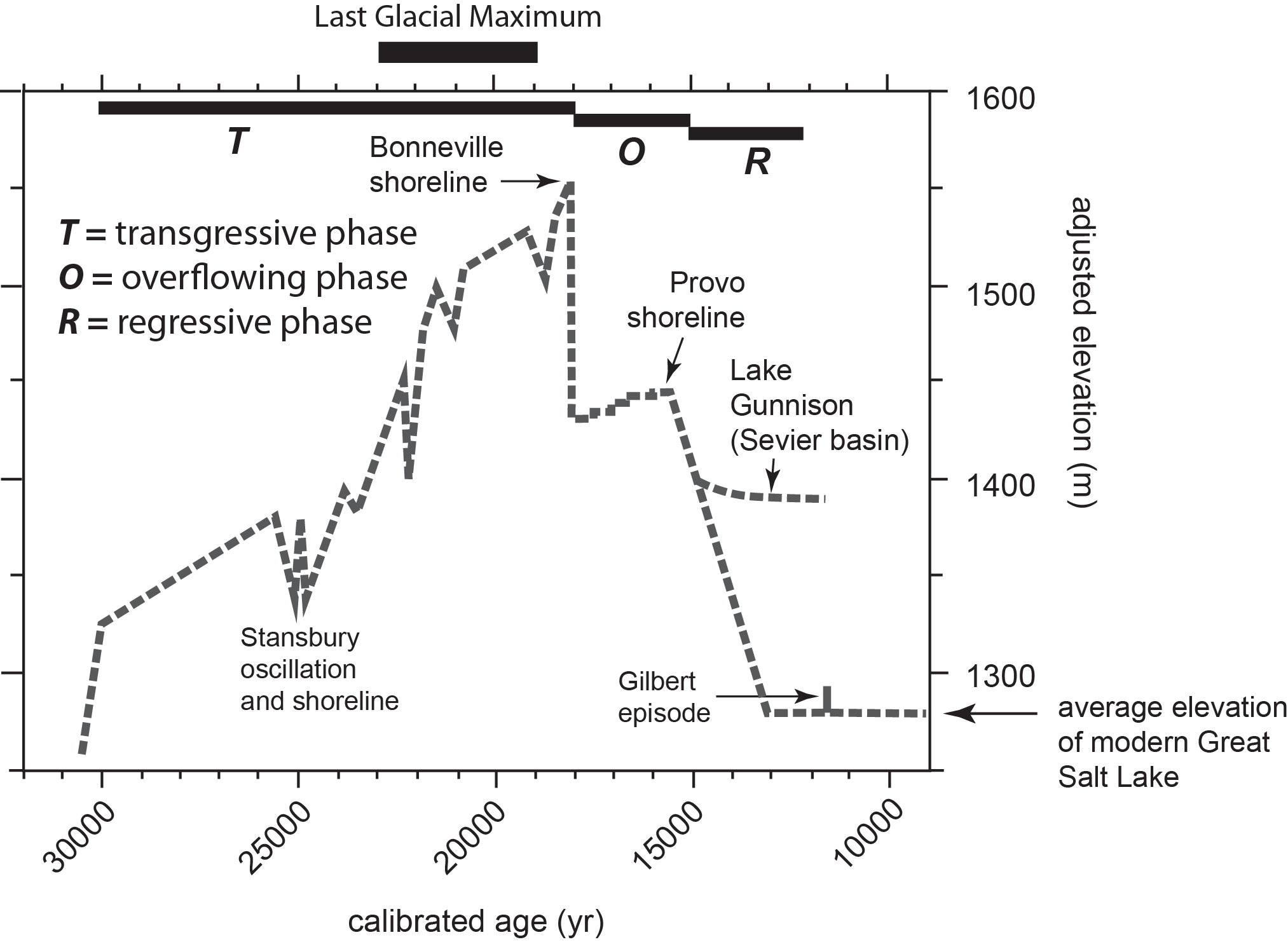 Chronology of Lake Bonneville